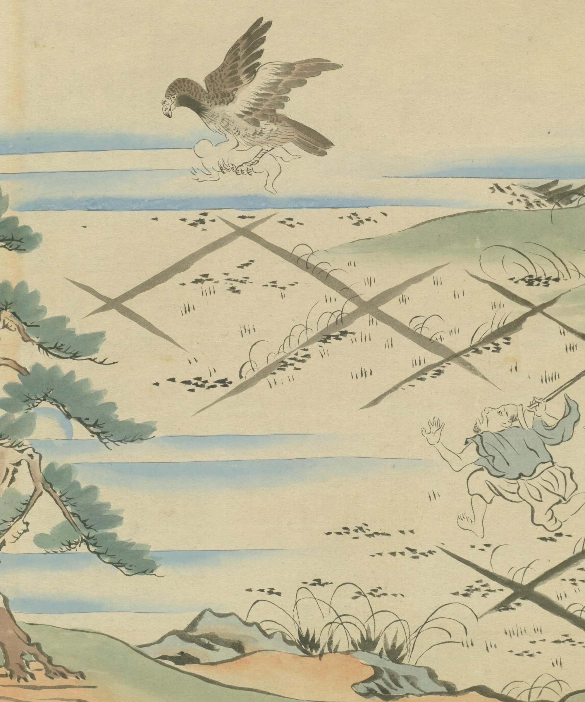 Detail from File:Roben-taken-by-eagle-Shukongoshinengi-by-Mitsuoki-50percent.jpg (ex File:Ryoben-snatch-by-eagle-Shukongoshinengi-by-Mitsuoki-50percent.jpg) showing the infant Rōben (misread: "Ryoben") being snatched by eagle. Shū kongōshin engi emaki picture scroll attrib. Tosa Mitsuoki